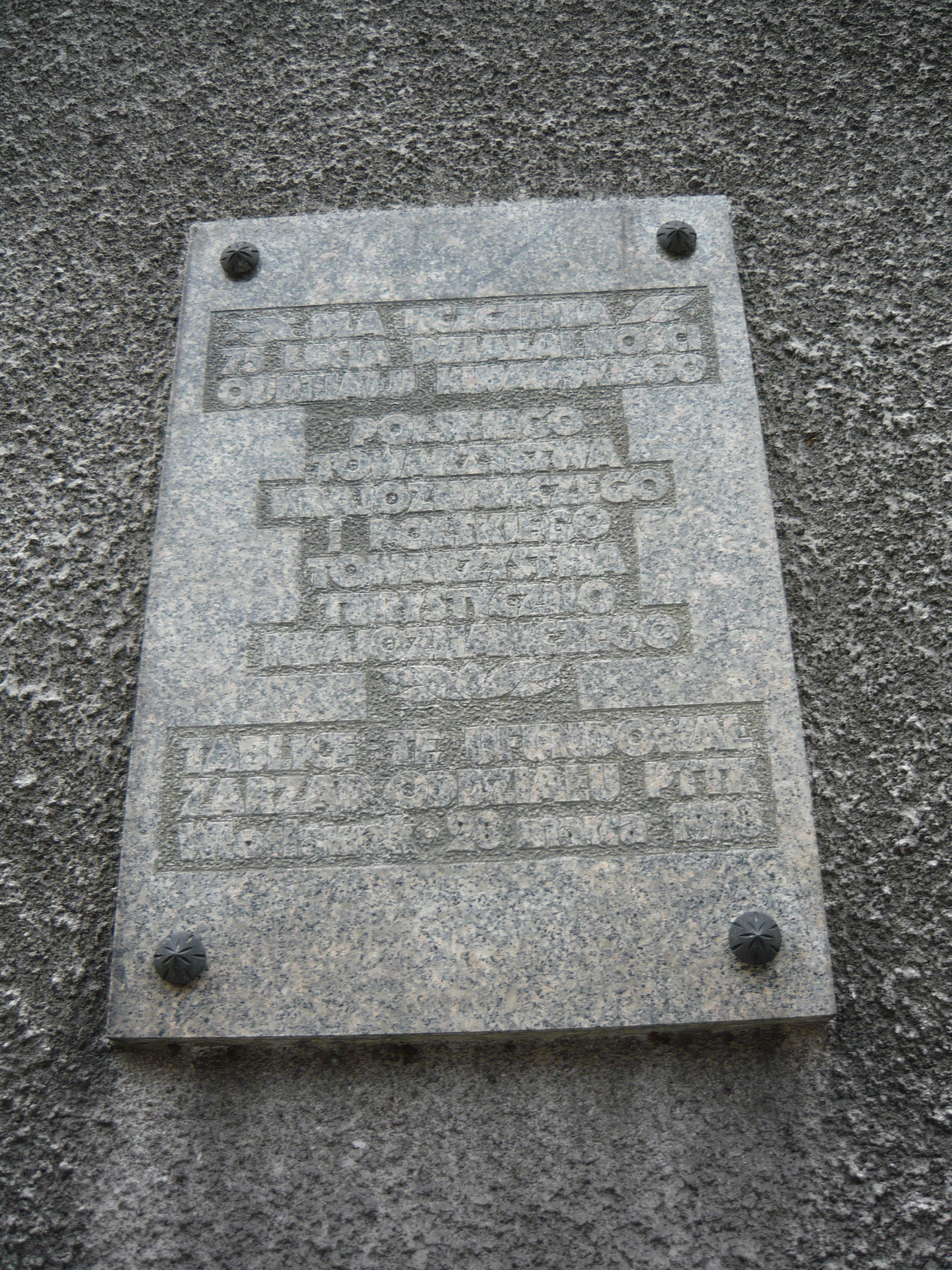 The plaque of Polish Sightseeing Society and Polish Tourist and Sightseeing Society.